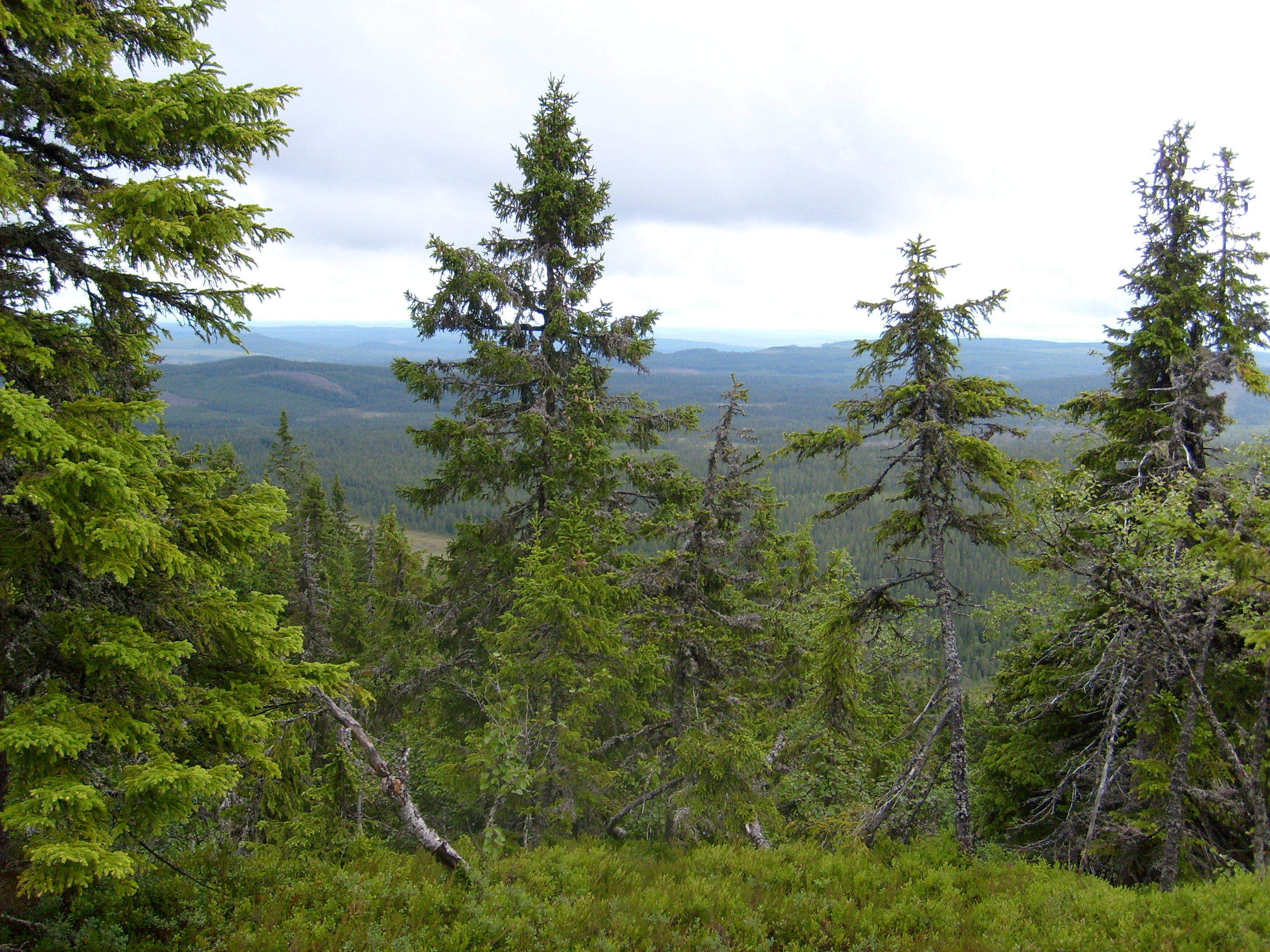 Picea abies forest, Korpimäcki reserve, Sweden